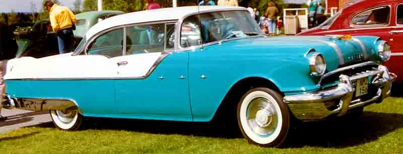 Pontiac Star Chief 1955